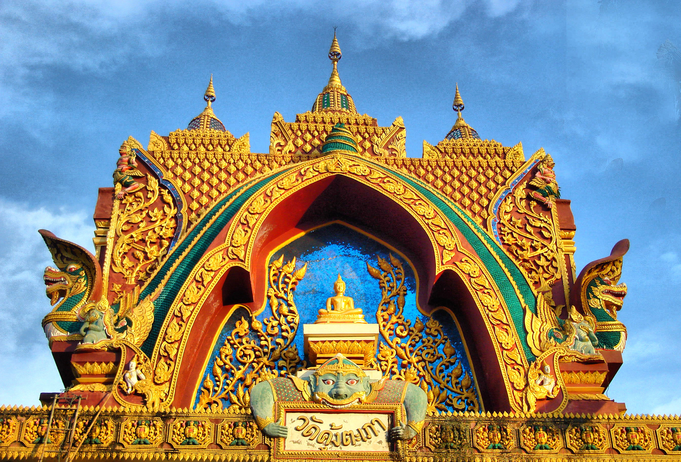 Buddhist temple arch in Wat Khung Taphao, Ban Ban Khung Taphao, Khung Taphao subdistrict, Mueang Uttaradit, Uttaradit Province, Thailand.